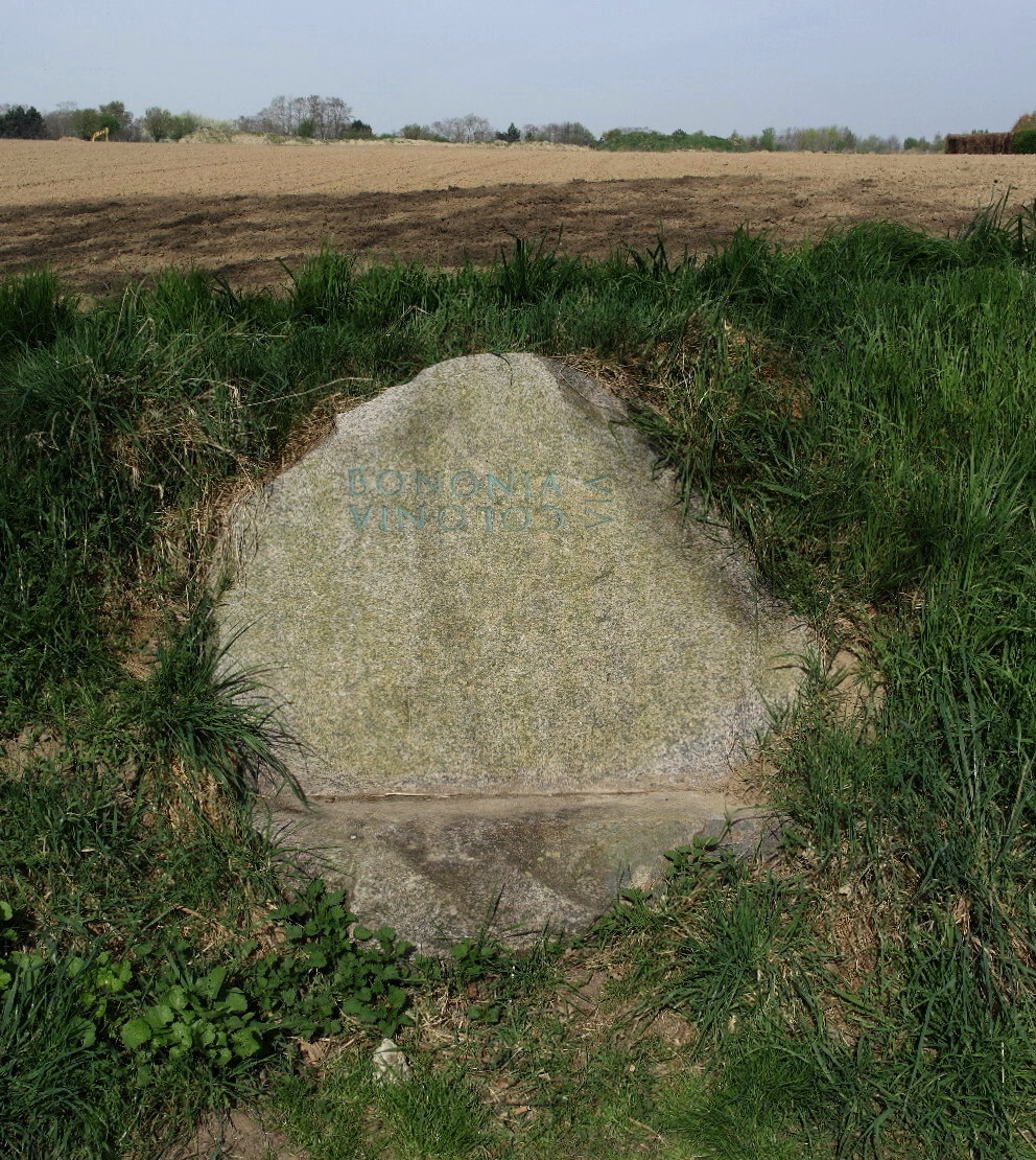 Maastricht, the Netherlands. Modern stone bench double-serving as a road sign (BONONIA / COLONIA) at Romeinsebaan in the southwestern neighbourhood of Daalhof. Archaeological finds indicate that Romeinsebaan ("Roman track") was once part of the Roman road from Boulogne-sur-Mer via Maastricht to Cologne.